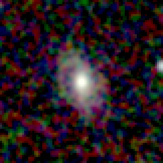 Spiral galaxy NGC 5640